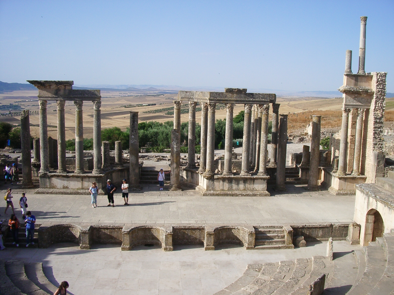 Dougga teatre